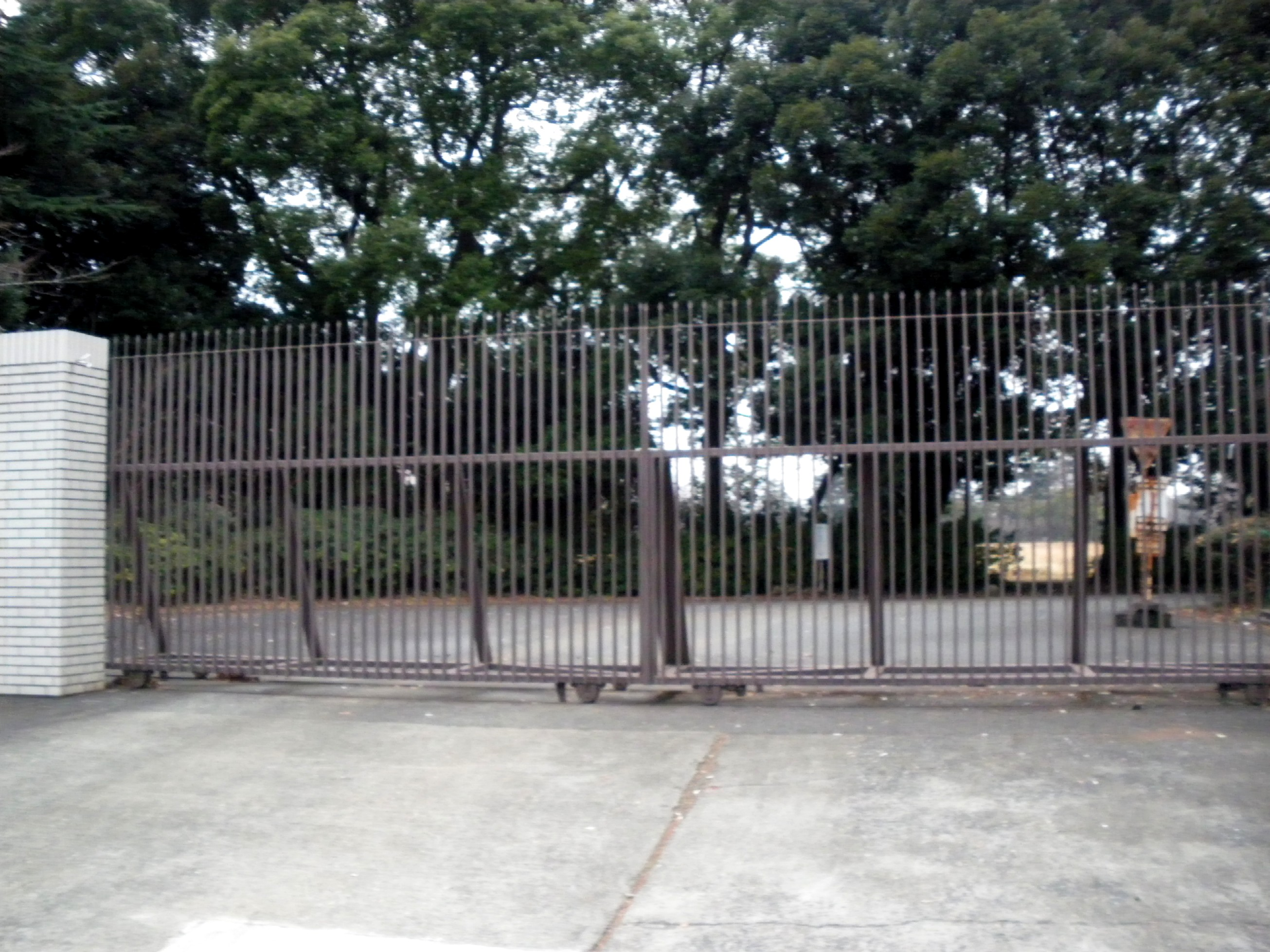 A photo of the entrance of former site of National Police Academy (Tokyo,Japan),Nakano,Nakano-ku,Tokyo,Japan.